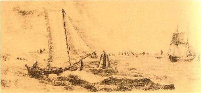 Johann Friedrich Wilhelm Lesenberg: Warnemünde Fishing-Dinghy on the way to Rostock